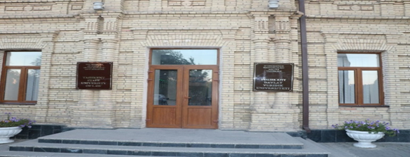 Tashkent State Unversity of Law